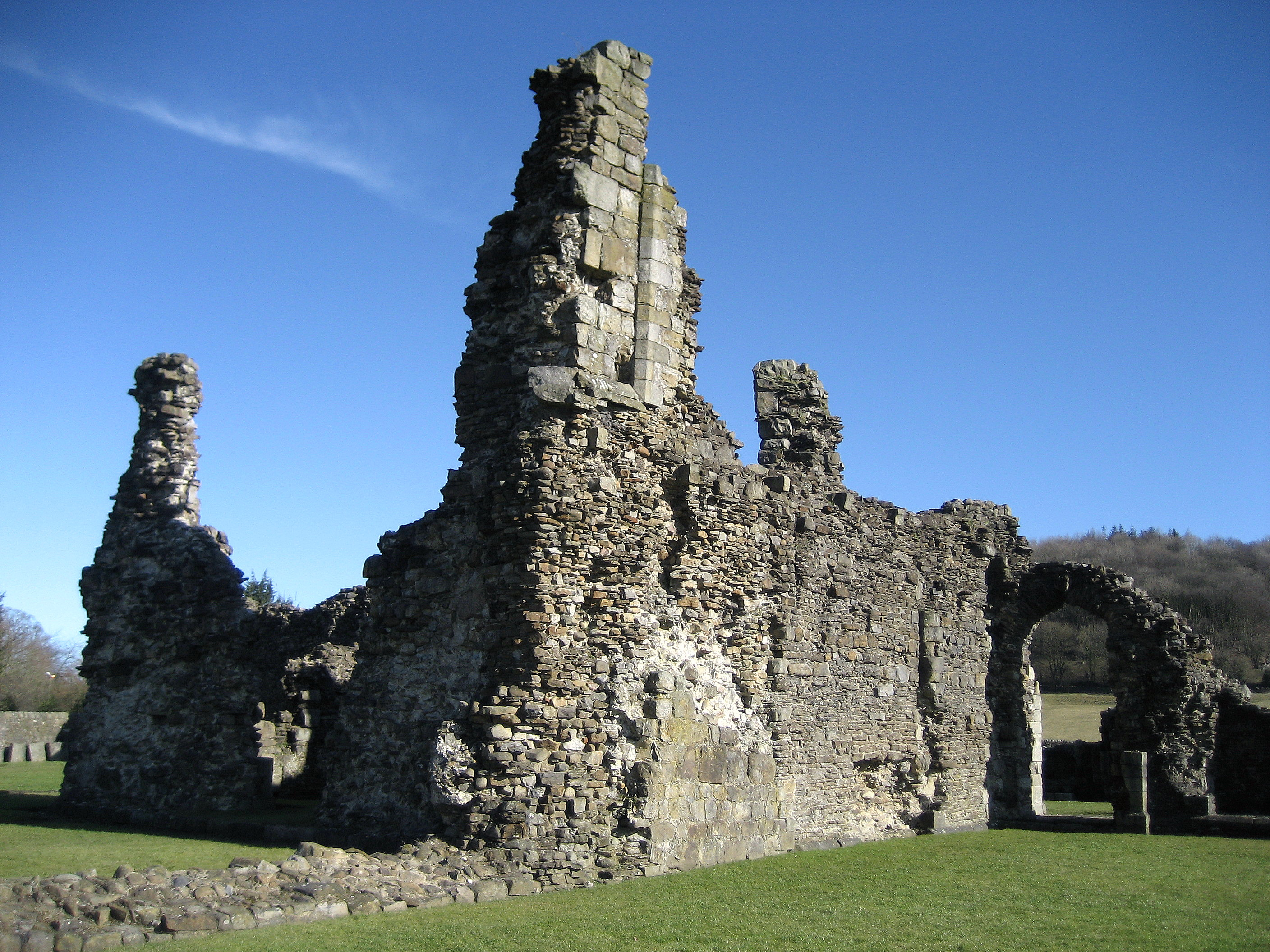 Salley Abbey, near to Sawley, Lancashire, Great Britain. Sawley Abbey or Salley Abbey - it is known by both names. Founded by William de Percy in 1147 as a Cistercian Monastery and operated for nearly 400 years - although never enjoying much wealth. This did not stop the tyrant Henry VIII dissolving the house, and executing the last abbot for his involvement in the Pilgrimage of Grace. The photograph shows what is left of the chapel.